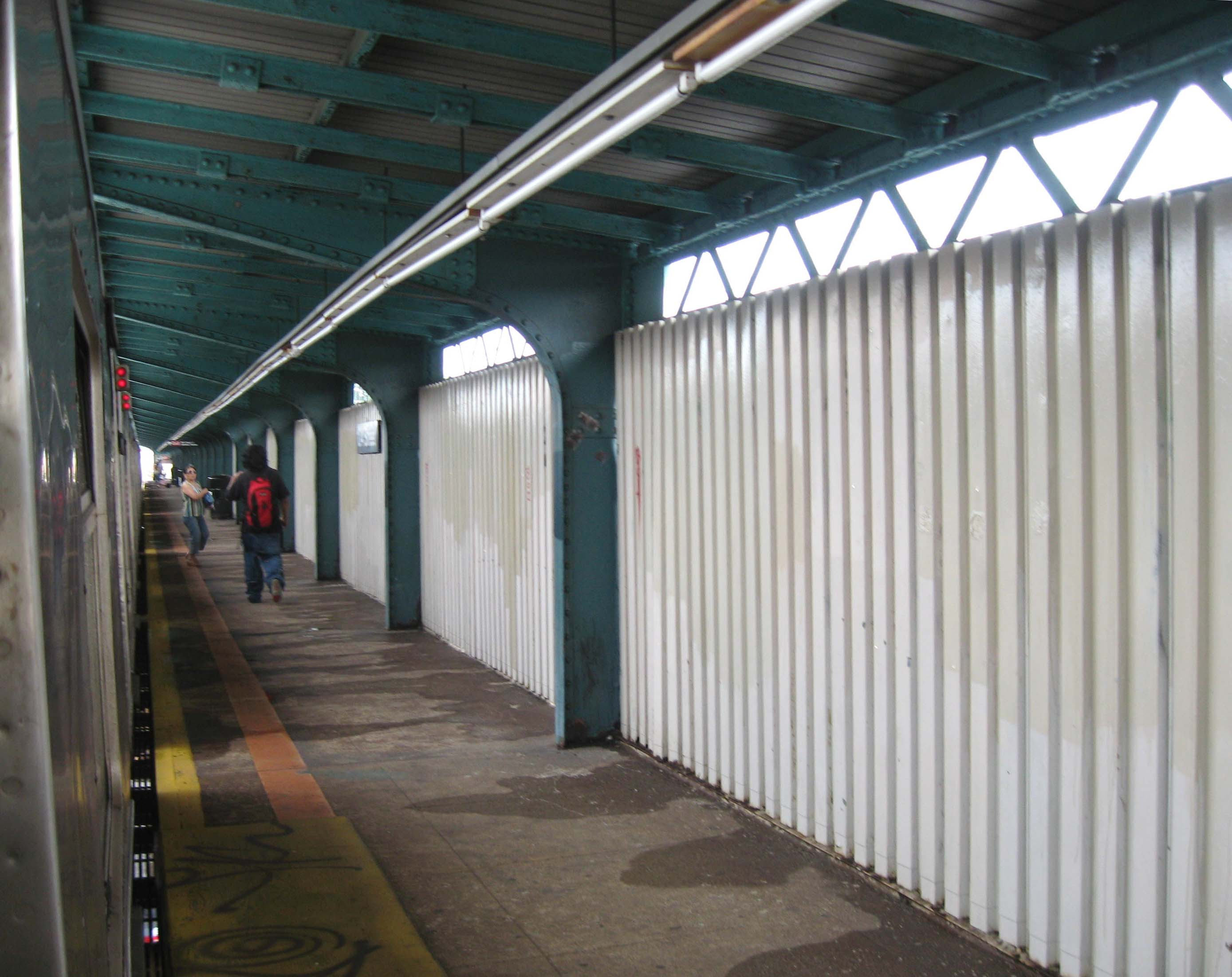 Looking east on northbound platform of en:104th Street (BMT Jamaica Line). on a rainy day.